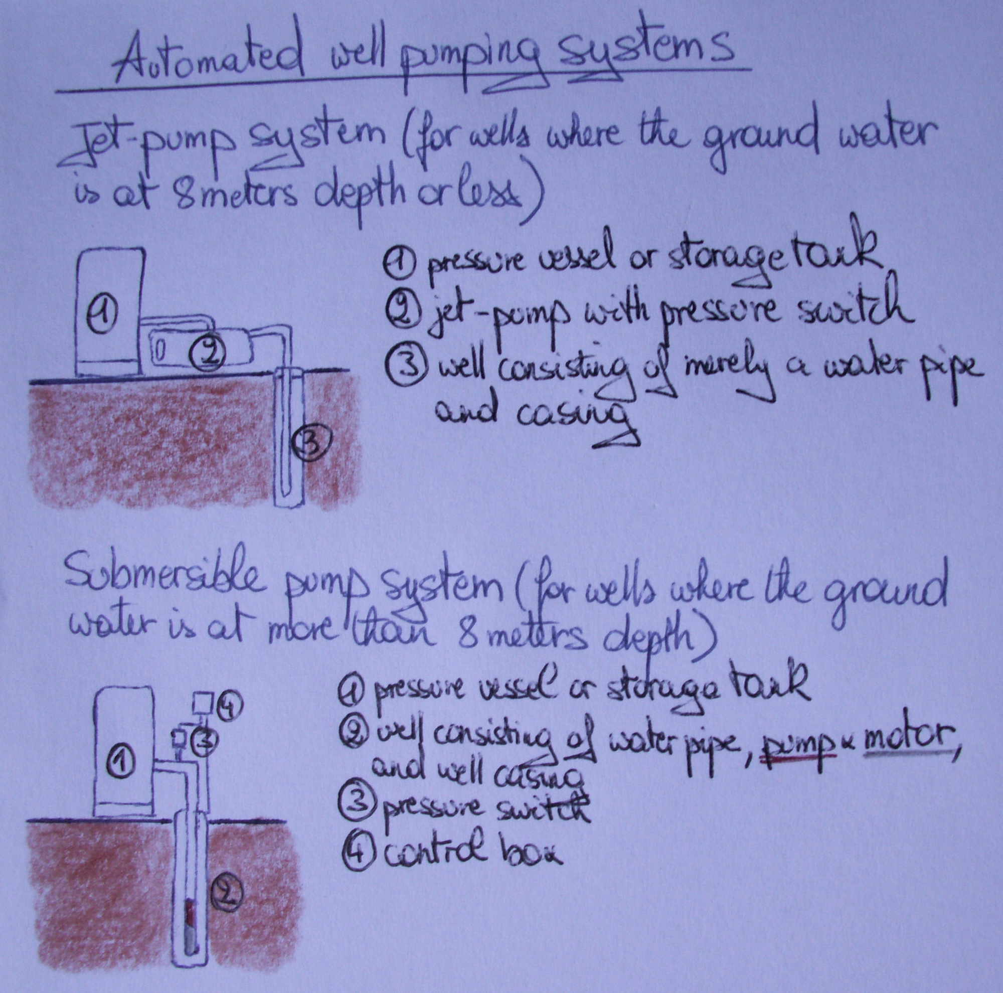 A hand-drawn picture of 2 automated (electric) water well systems, powered by electric pumps. The picture is made after a model from (